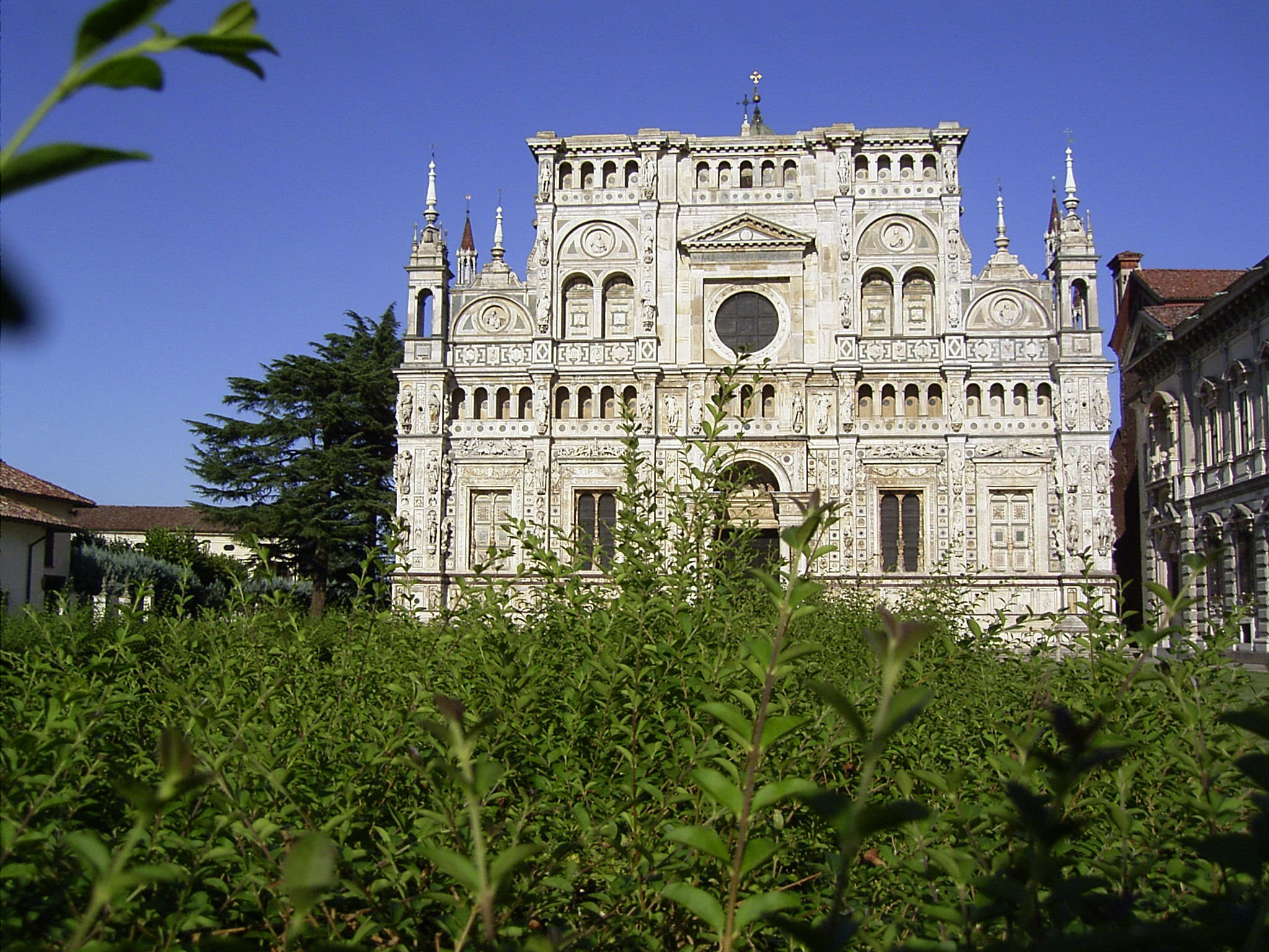 Another frontal view of the church of the monastery of Certosa di Pavia, near Pavia, Italy.